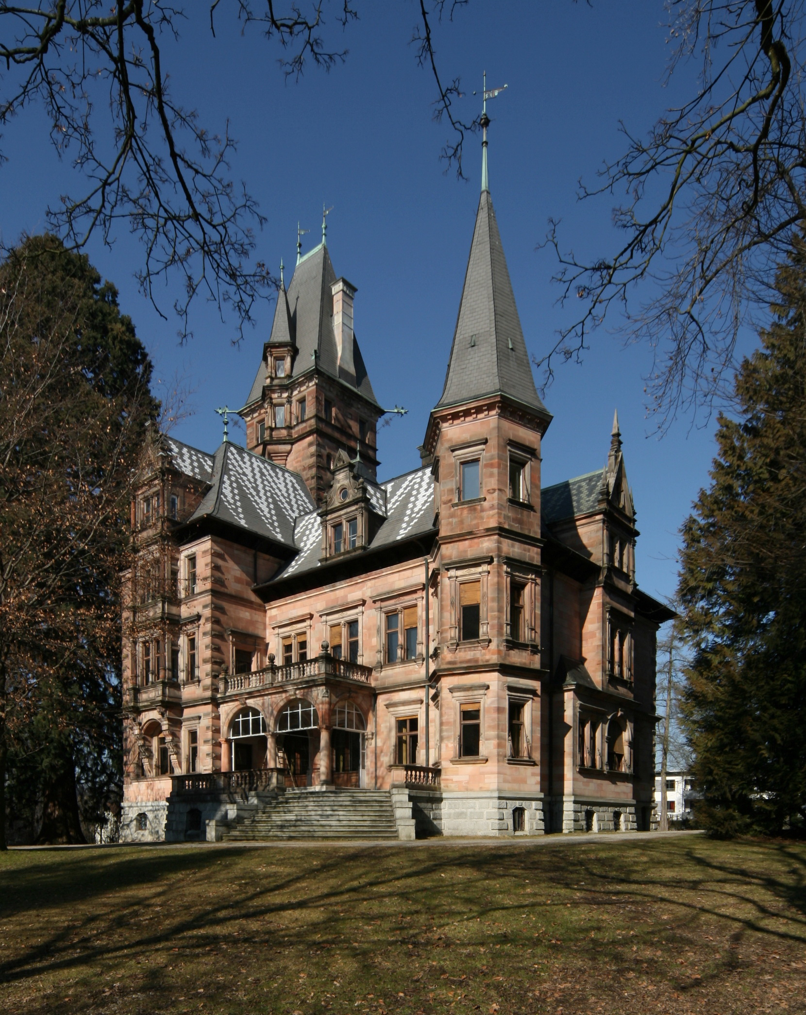 Mansion Schloss Holdereggen, Lindau-Aeschach, Bavaria, Lake Constance, Germany